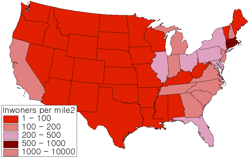 Map showing number of inhabitants per square mile. A faulty visual colour order was used intentionally.